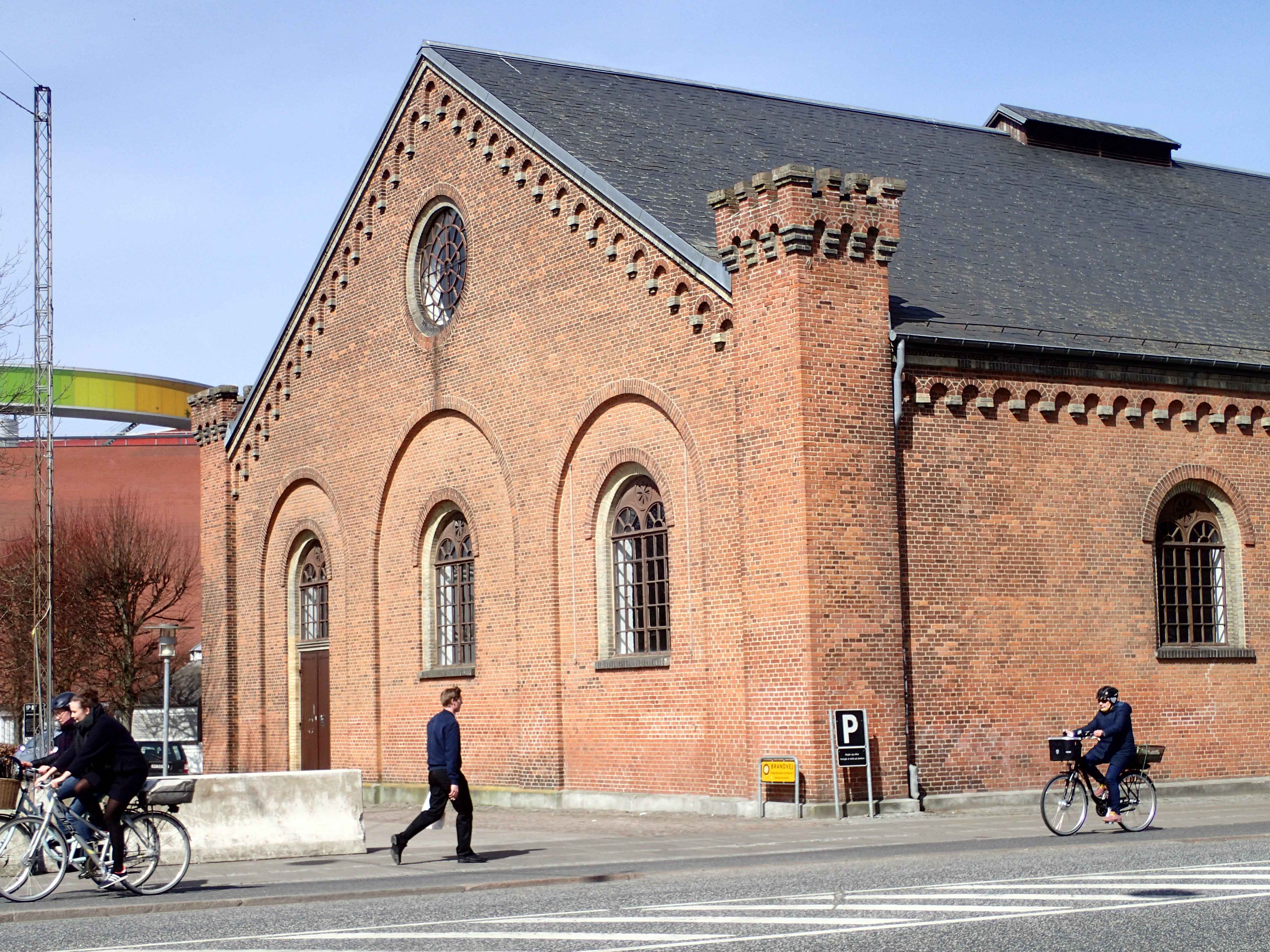 Ridehuset